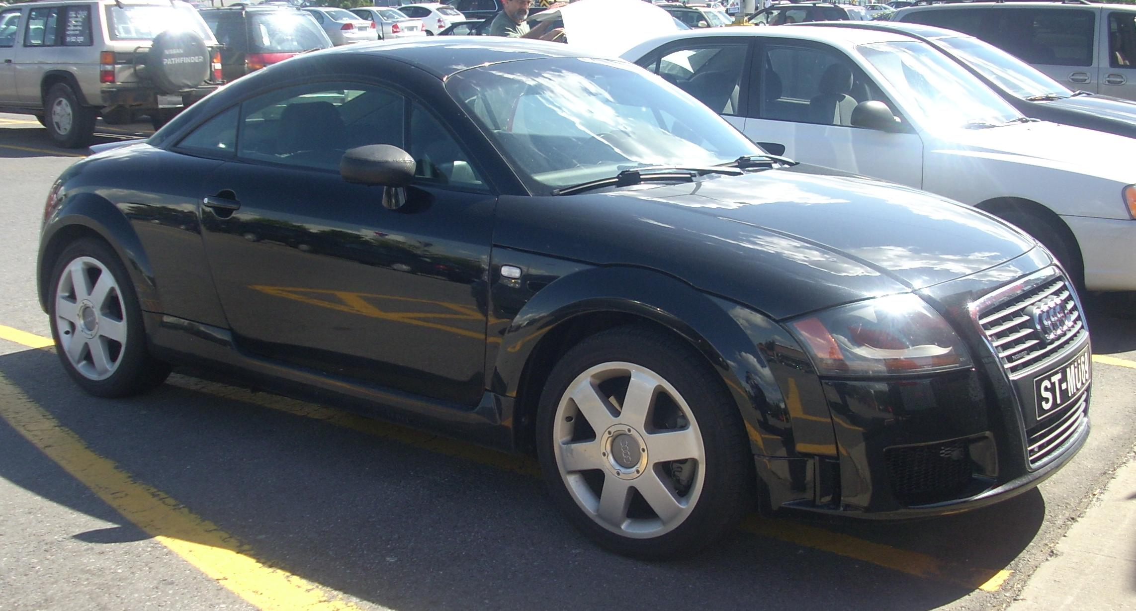 2004-2006 Audi TT photographed in Montreal, Quebec, Canada.